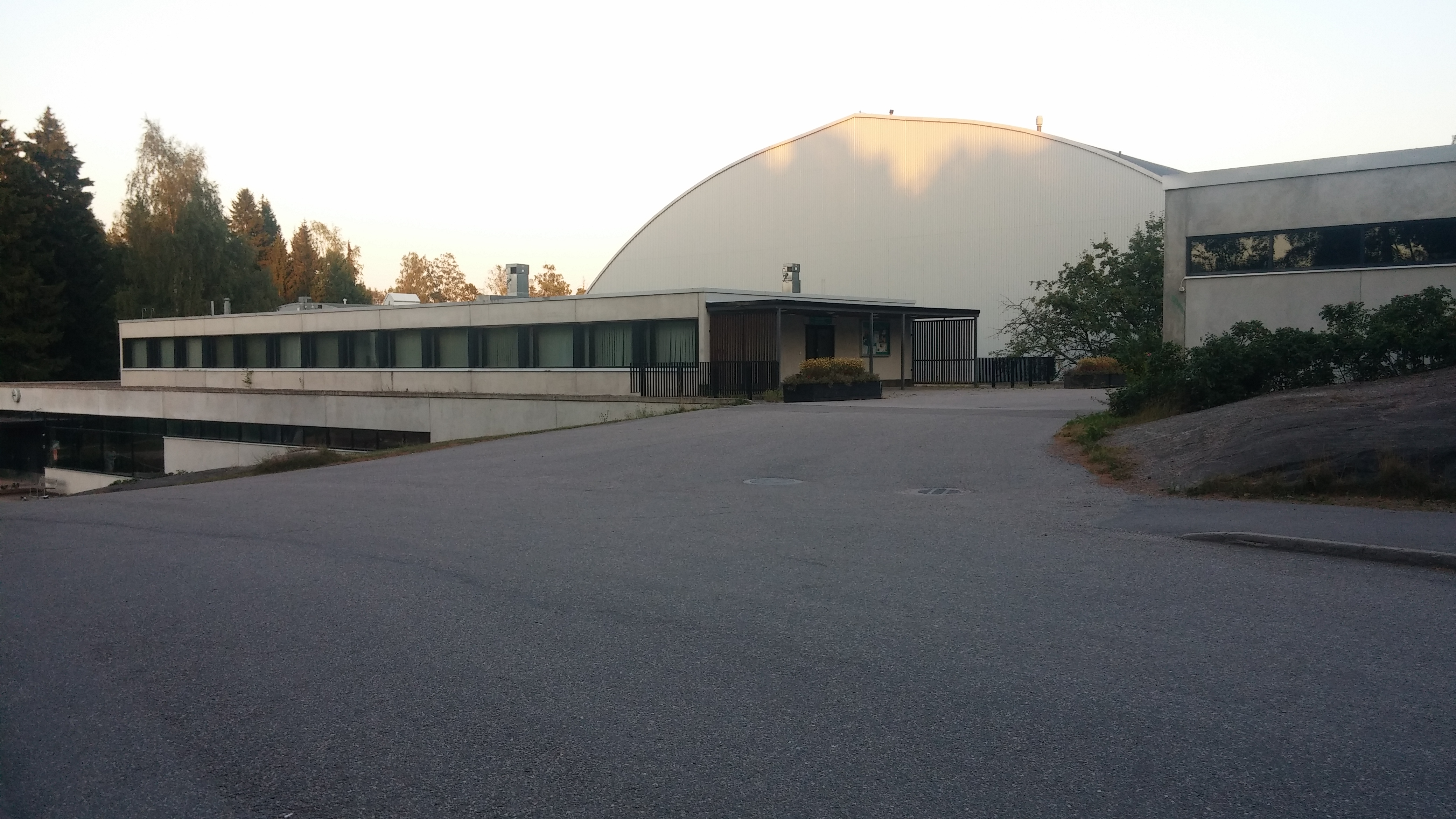 Pirkkolan liikuntapuisto is a sports venue in Helsinki